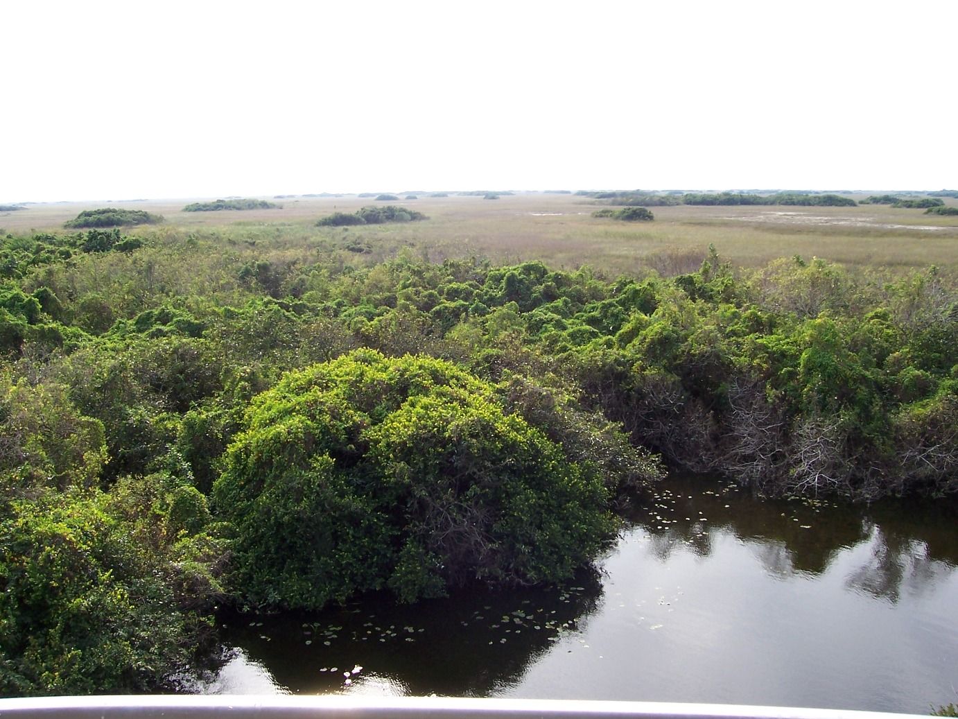 A picture taken by me of Everglades National Park.